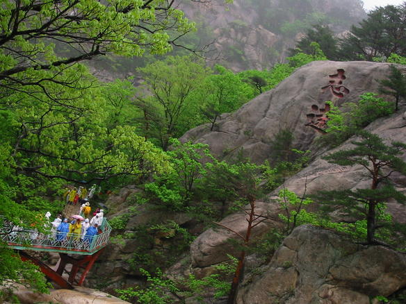 The path to Koryong Falls